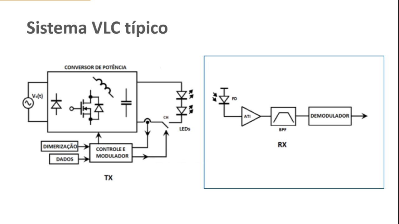 Sistema CLV Típico